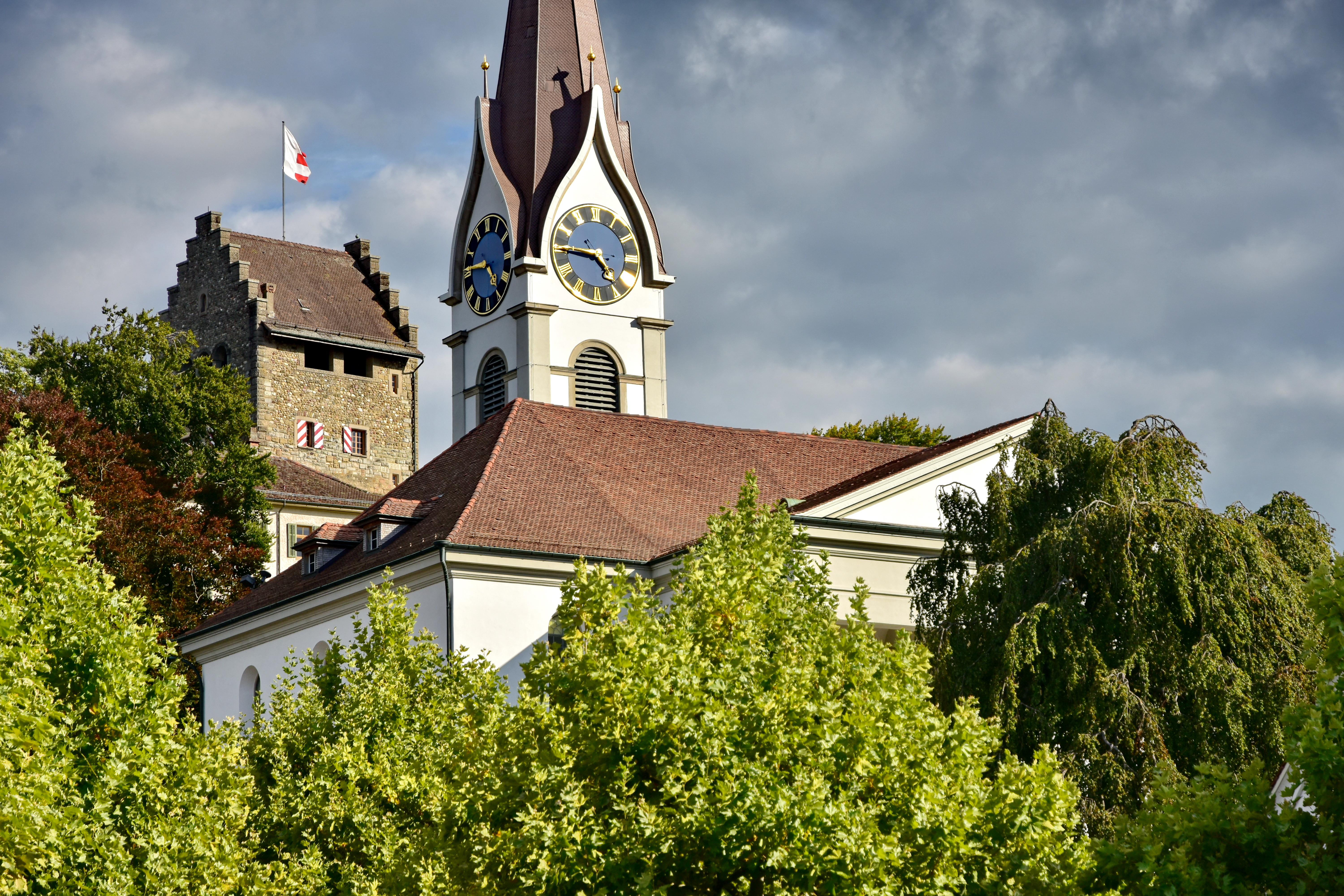 Reformierte Kirche & Schloss in Uster